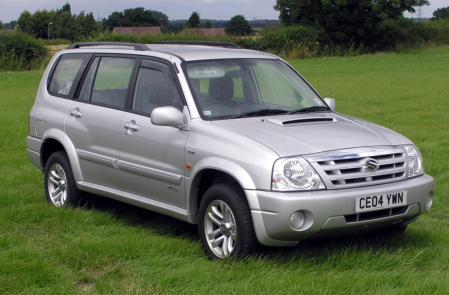 2004 Suzuki Grand Vitara 2.0td at Coalpit Heath Car Show, near Bristol, England. Taken by Adrian Pingstone in July 2004 and released to the public domain.